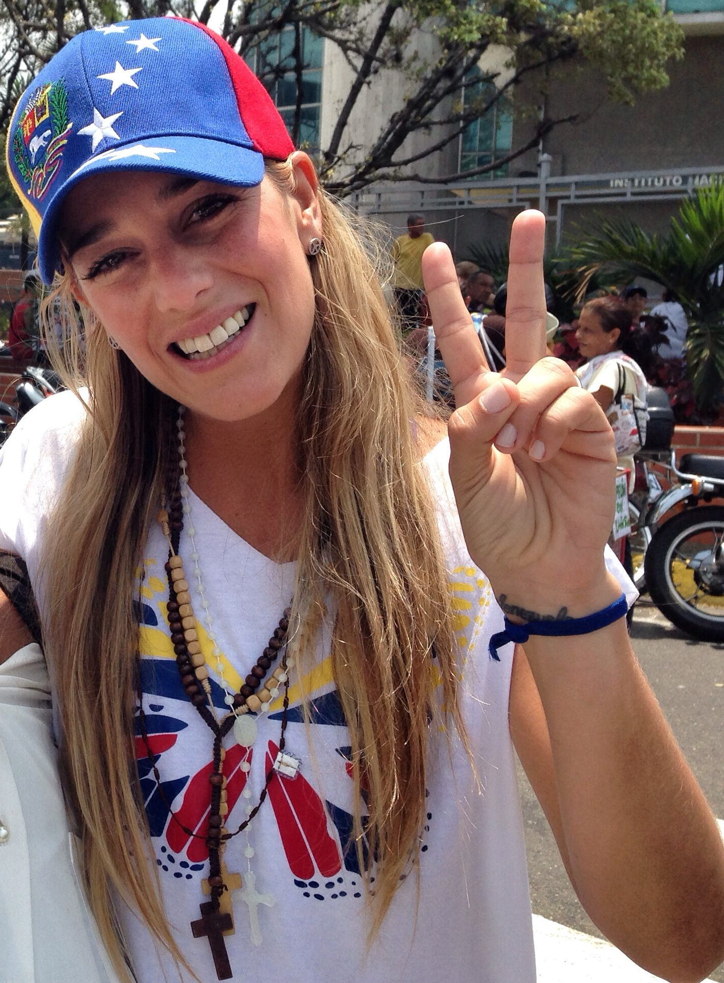 Venezuelan activist Lilian Tintori.